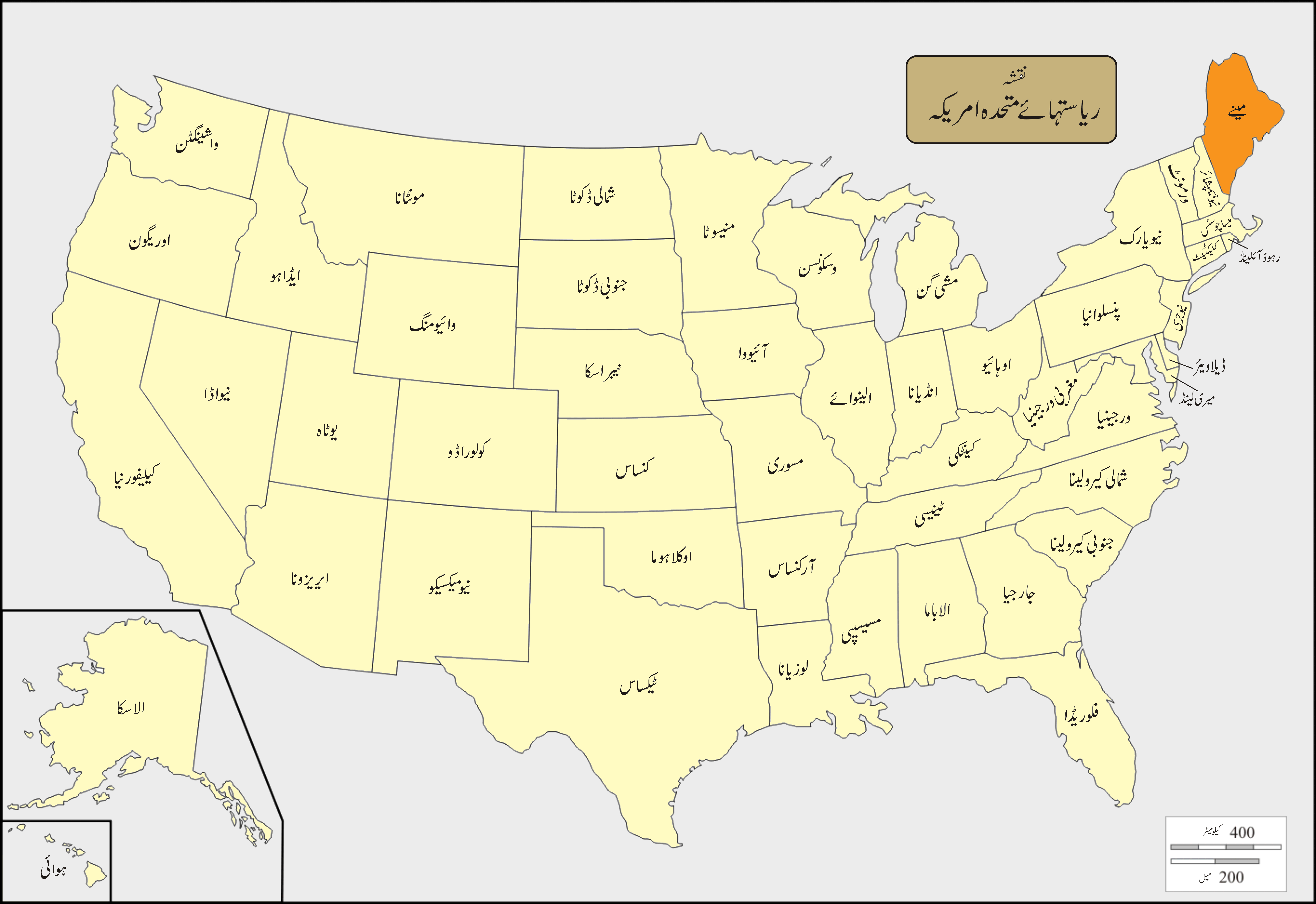 USA Names Maine